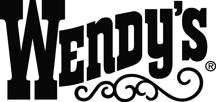 Wendy's logo